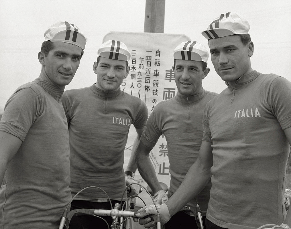 Left-right: Pietro Guerra, Ferruccio Manza, Severino Andreoli, Luciano Dalla Bona at the Tokyo Olympics. Tokyo, October 1964